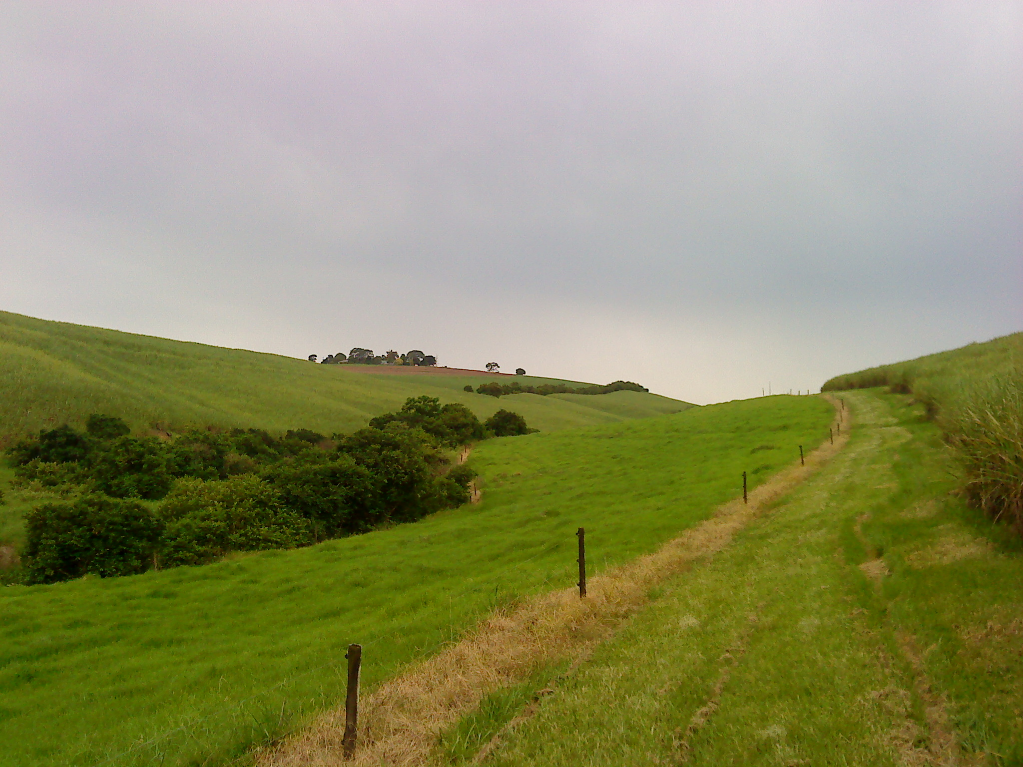 This is an image with the theme "Play" from: South Africa